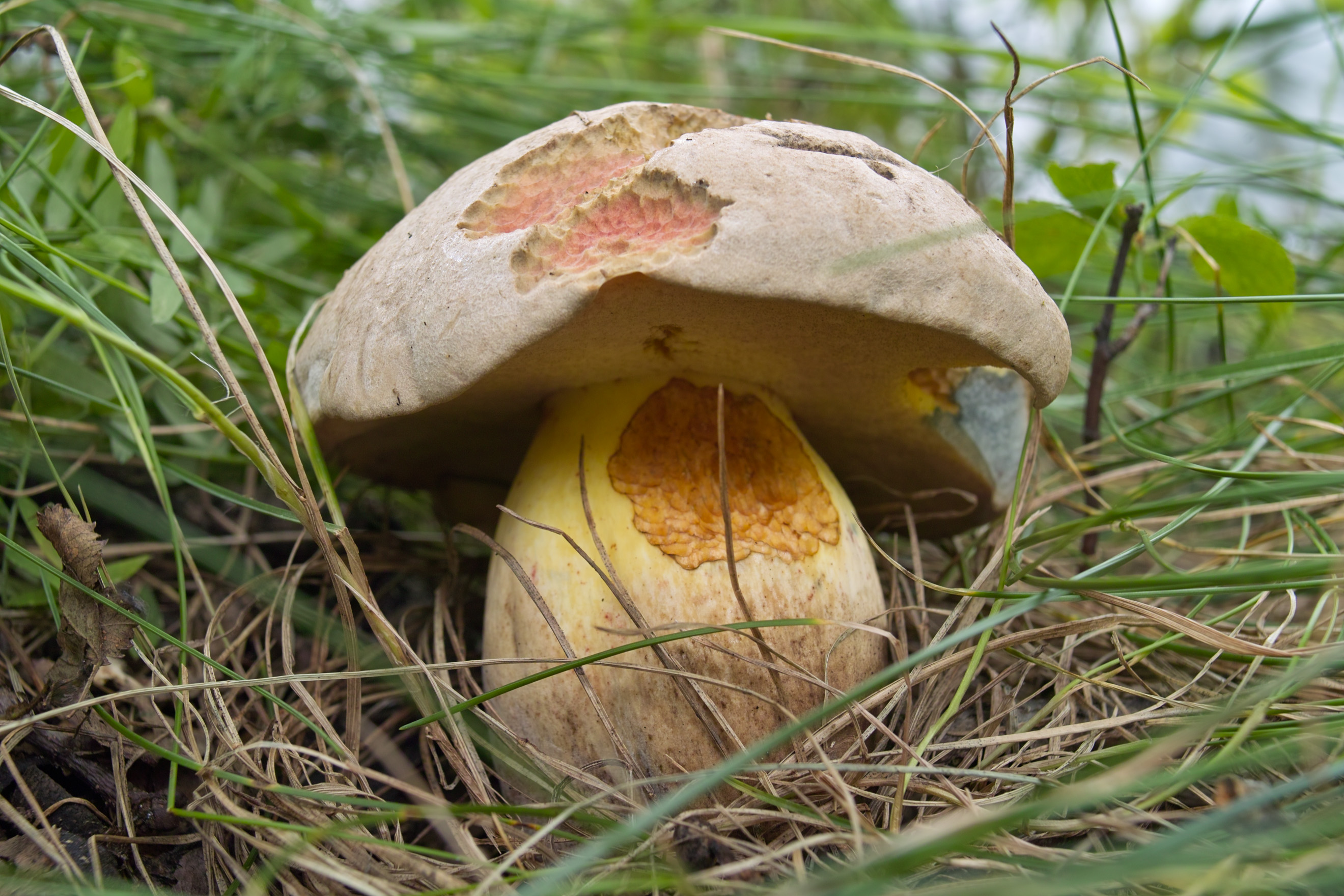 Boletus radicans, Vrbenské rybníky, Czech Republic